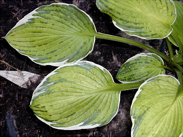 Hosta Virus X infecting Hosta 'Moonlight'